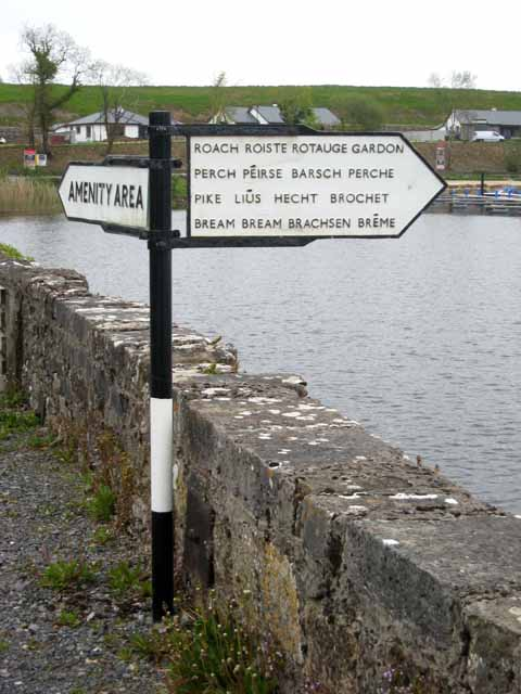 "Fishing" signpost at Cootehall A popular fishing and boating spot on the River Boyle.